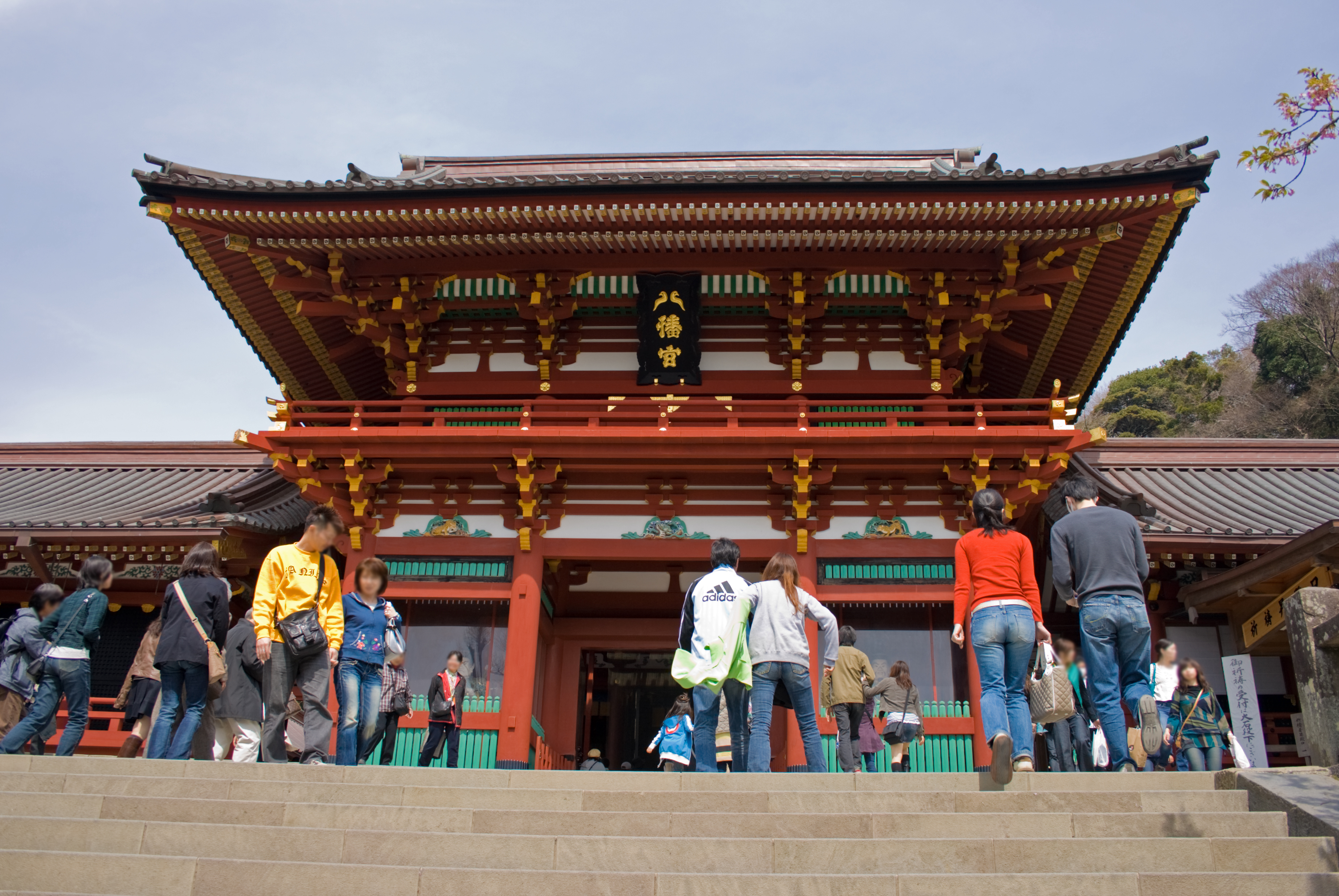 Tsurugaoka Hachiman-Shrine, Kamakura-shi, Kanagawa, Japan.